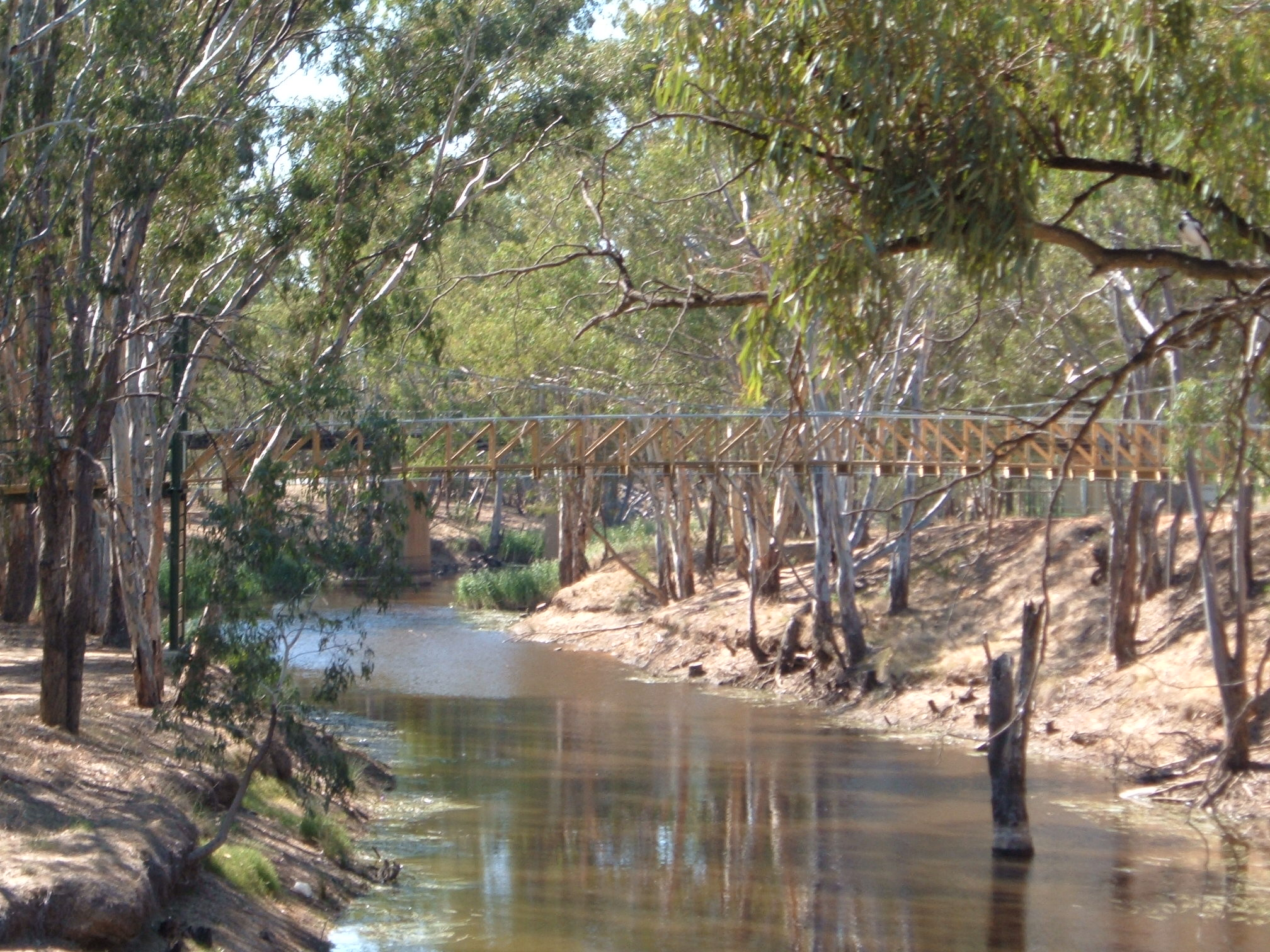 Photograph of recently completed local footbridge, taken with personal camera.